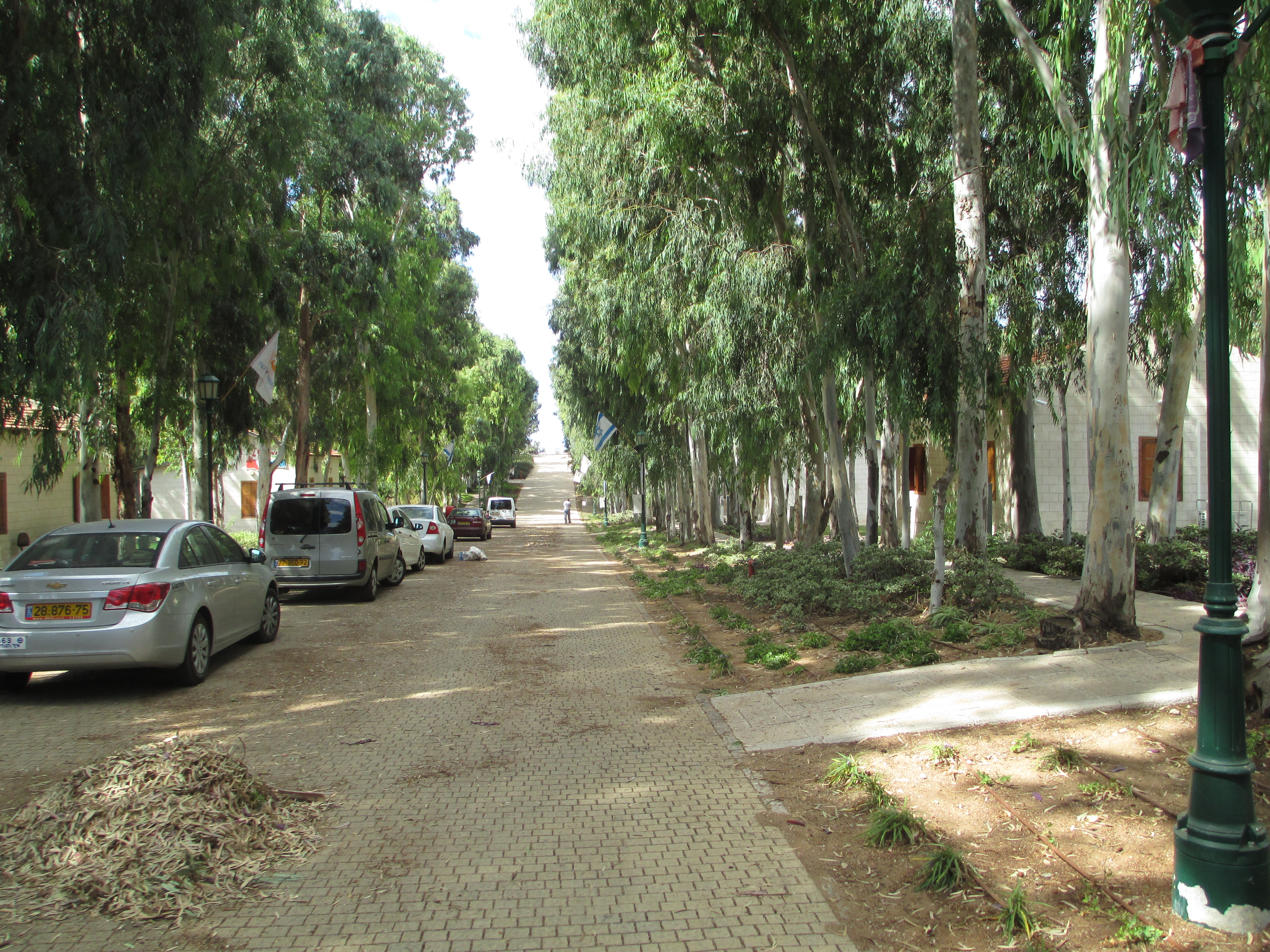 Heftzi-Ba Farm